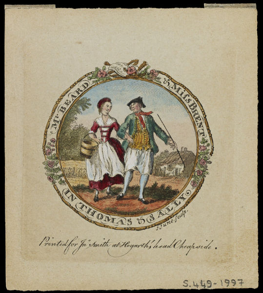 John Beard and Charlotte Brent in the opera Thomas and Sally, or The Sailor's Return composed by Isaac Bickerstaff, music by Thomas Arne, produced at Covent Garden Theatre, 28 November 1760